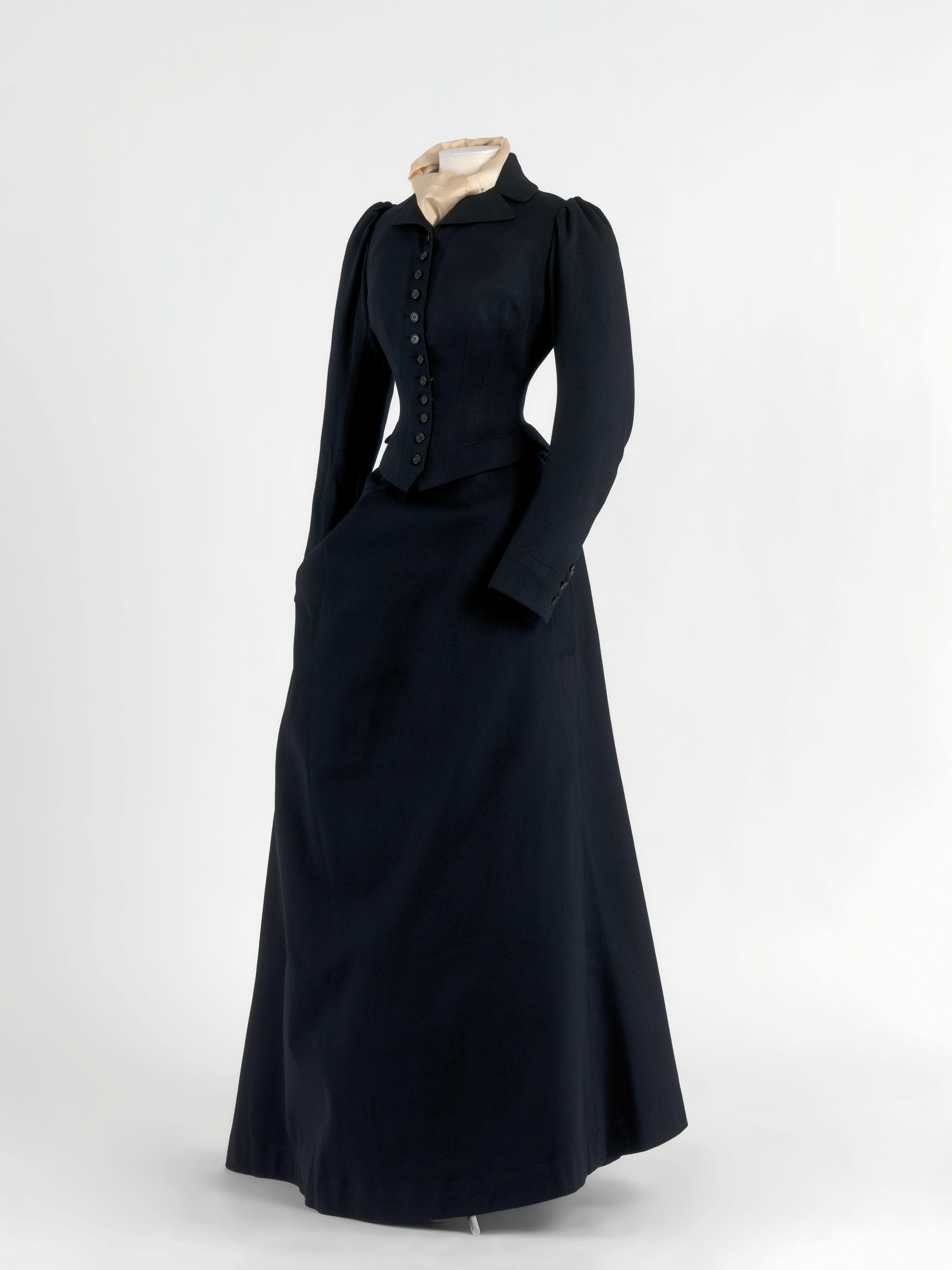 Riding habit in cloth with tightly tailored bodice and closed skirt with stitched-in knee, ca. 1885-1895. This is the oldest riding habit in the Jacoba de Jonge collection. Distributed by John Mandy Magasin Anglais. Jacoba de Jonge Collection in MoMu - Fashion Museum Province of Antwerp, Photo by Hugo Maertens, Bruges. MoMu Collection T12/22AB/B54. Go to [1] and type in the MoMu collection number to find more information about the object